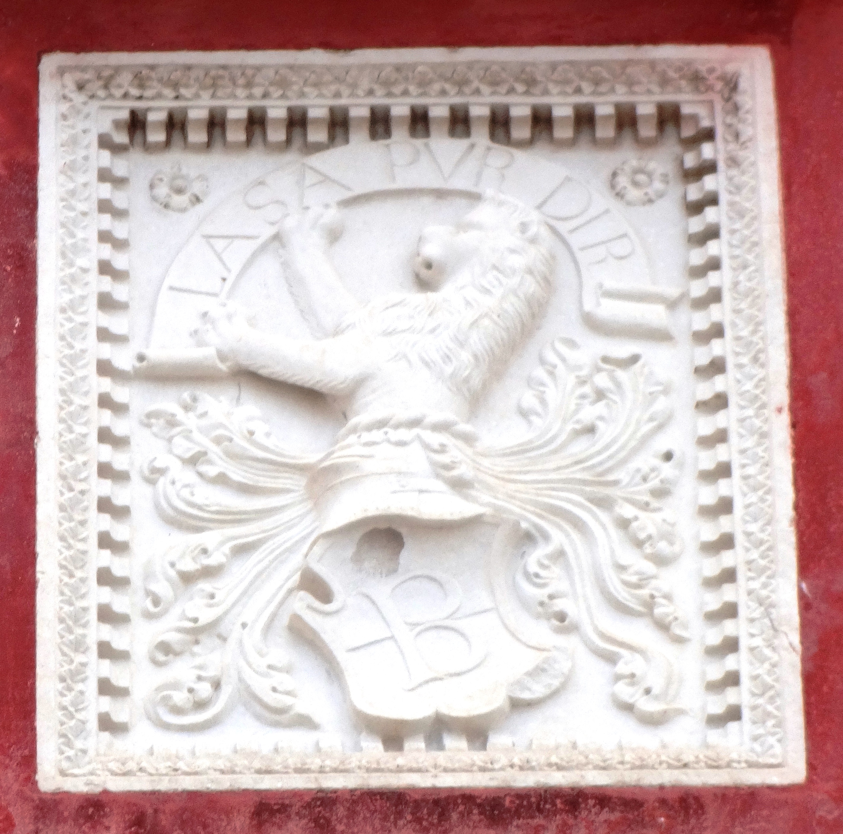 Inscription on Venetian house = Lasa Pur Dir (Let them talk)